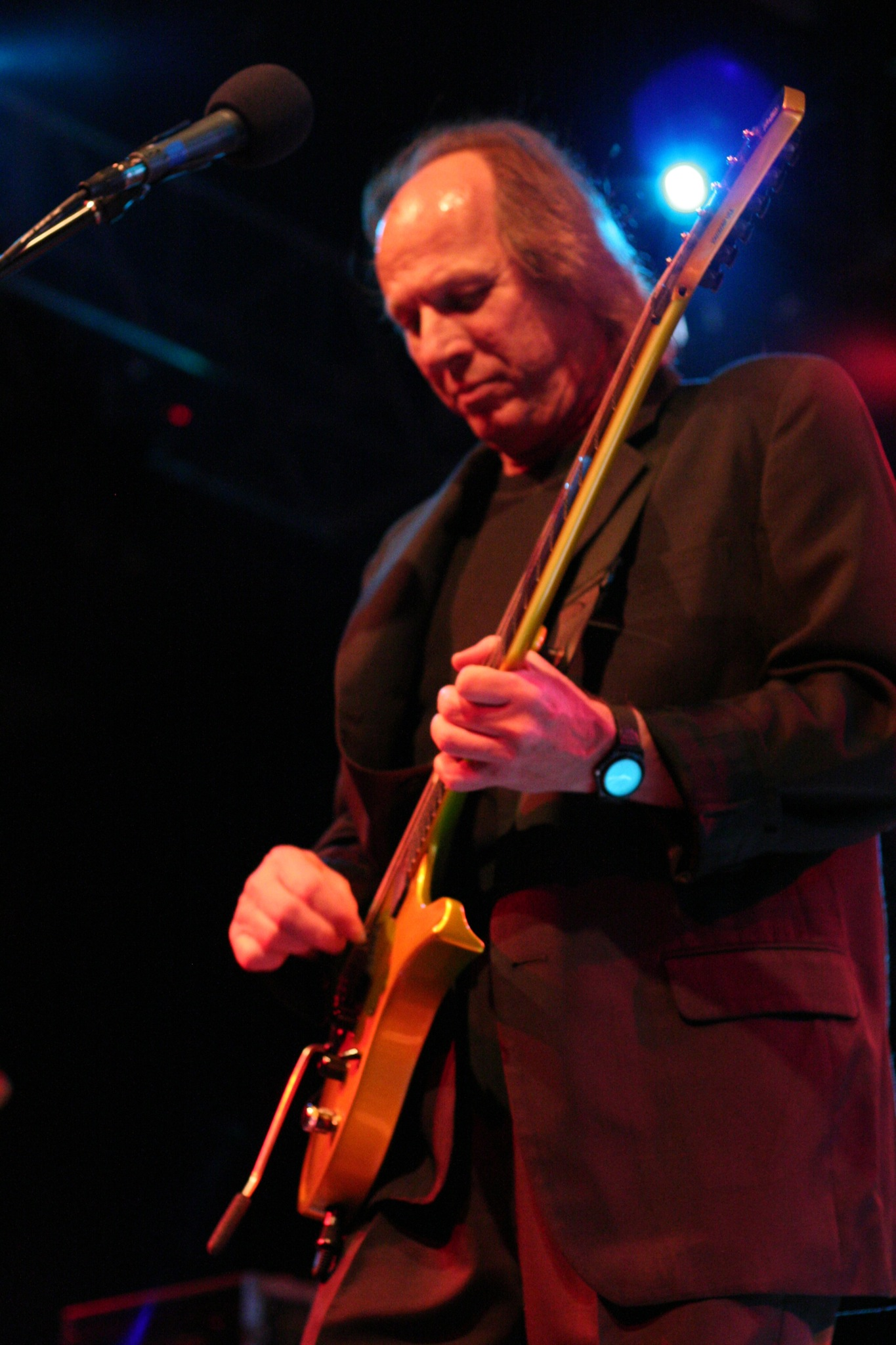 Photo of Adrian Belew in concert.